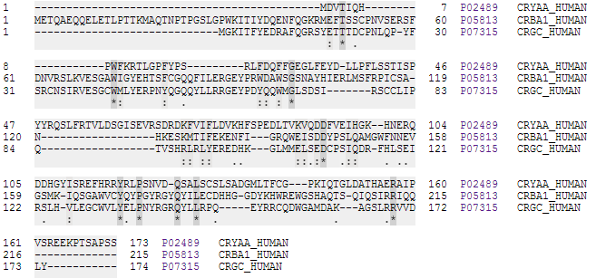 An alignment of the human crystallin proteins alpha, beta, and gamma from Uniprot.